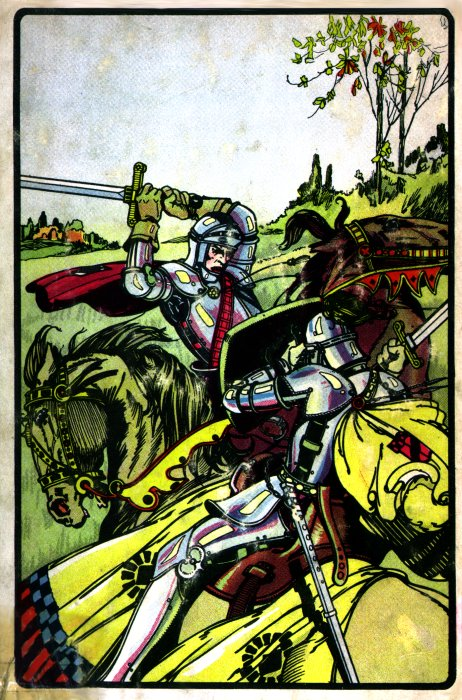 Illustration from "In The Court of King Arthur" by Samuel E. Lowe, illustrated by Neil O'Keeffe.